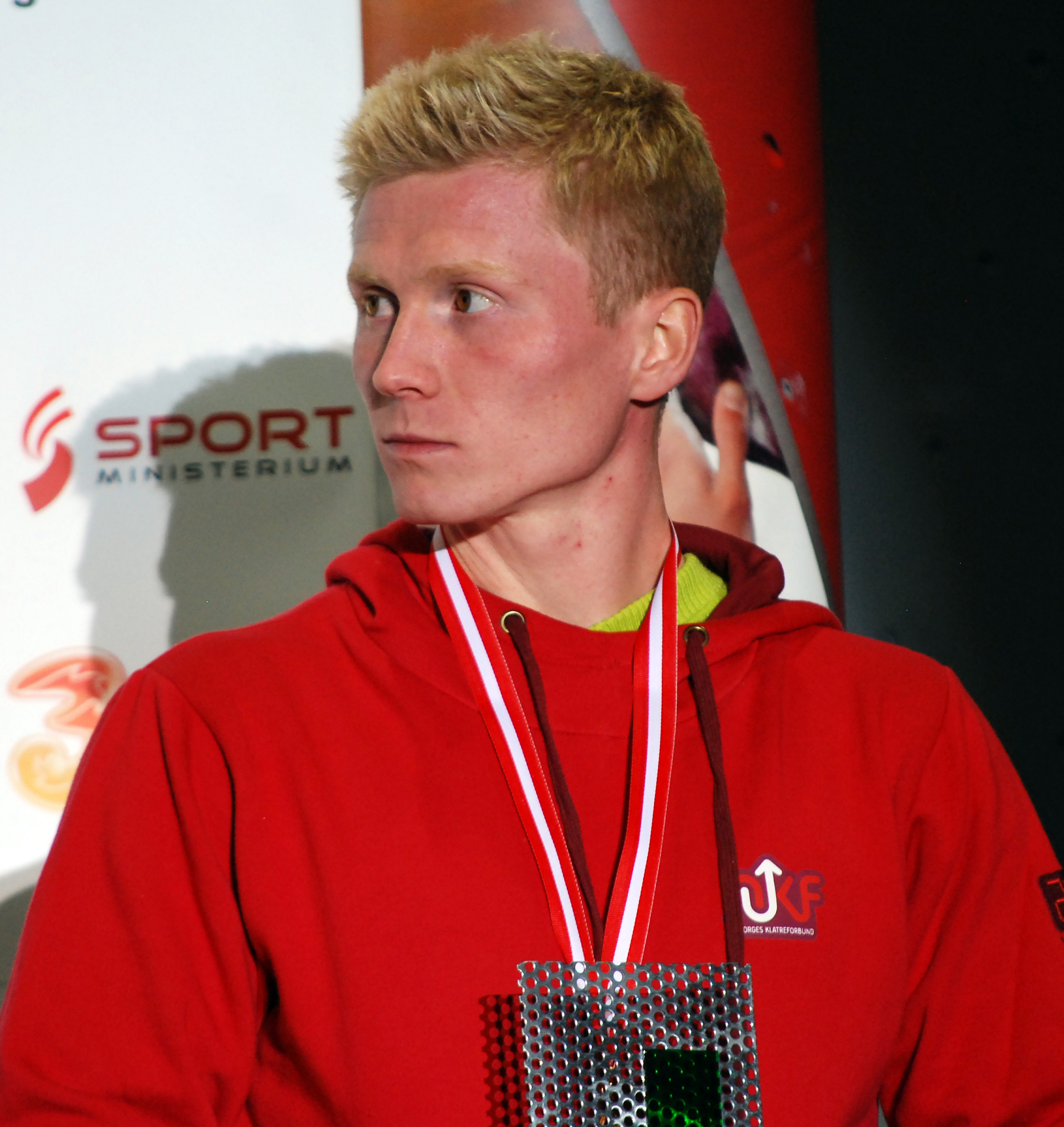 Magnus Midtbø, EC 2010, Innsbruck